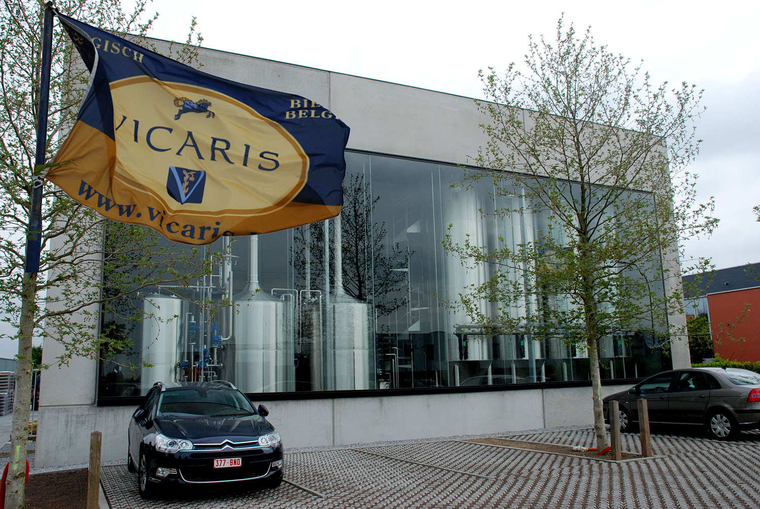 Brewery Dilewyns, Belgium